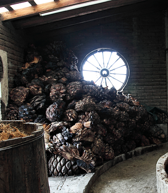 Roasted Agave (maguey) hearts awaiting the milling process so they can be turned into Mezcal. Location: Oaxaca, Mexico